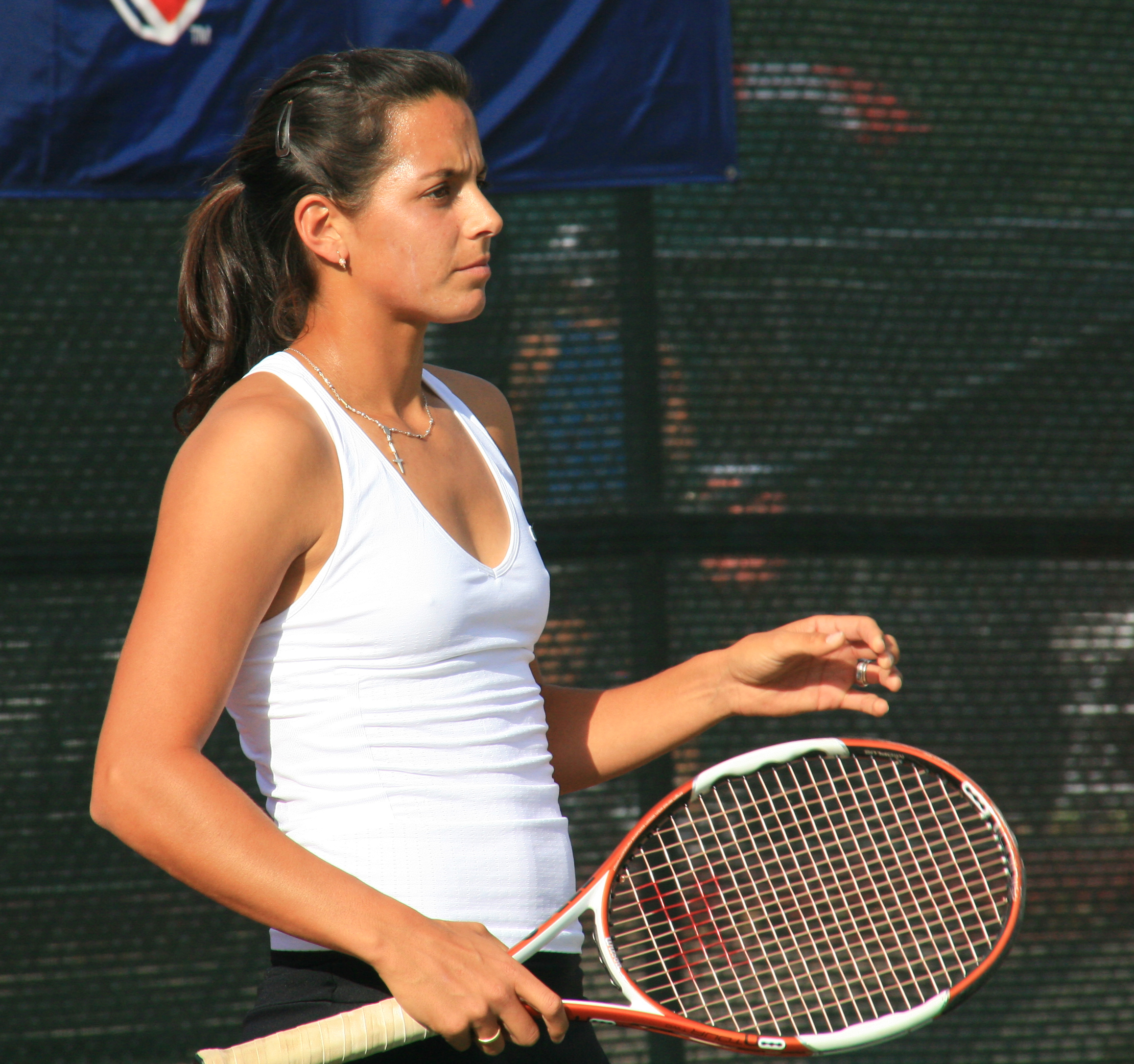 Agustina Lepore at the Coleman Vision Tennis Championship in Albuquerque, New Mexico.